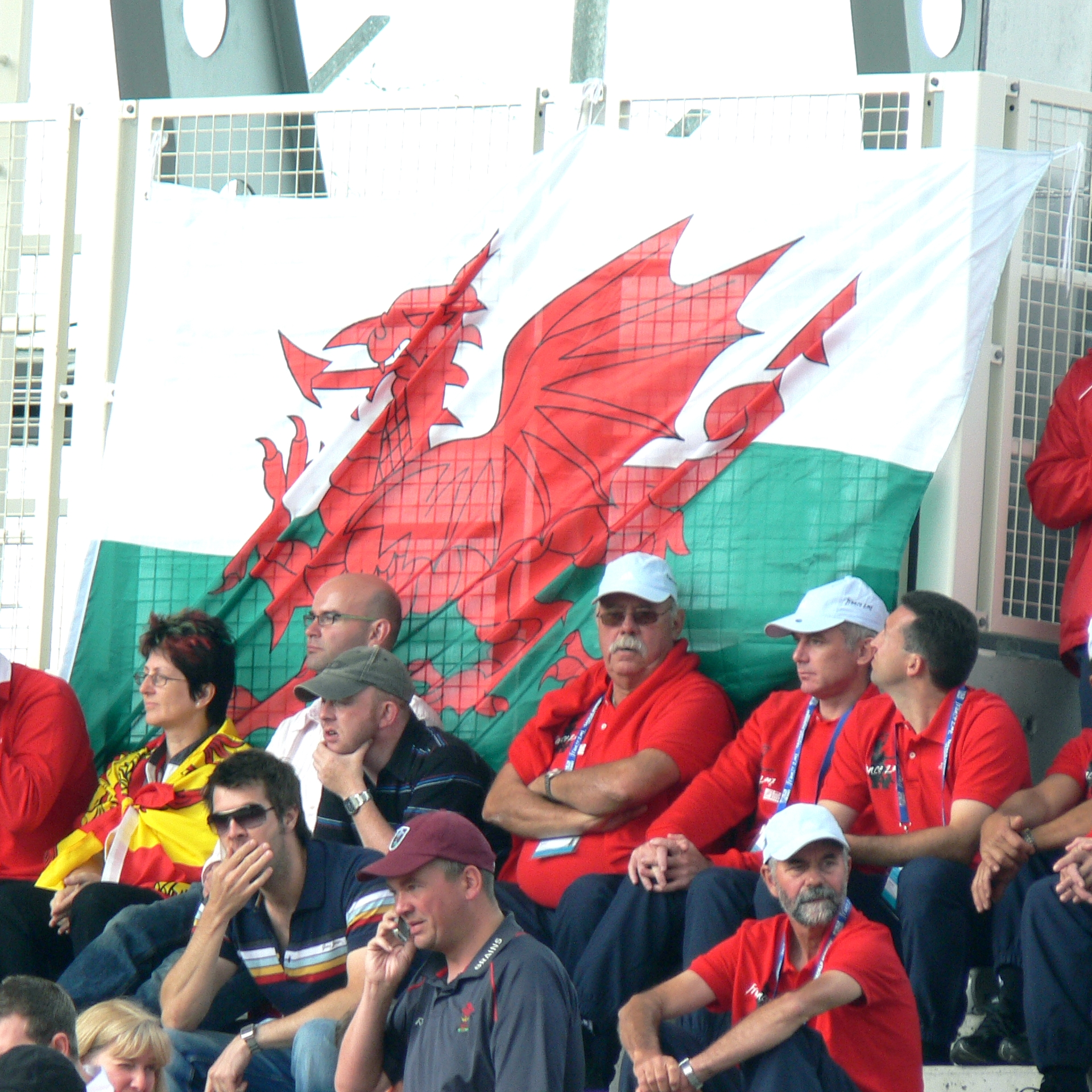 Wales' flag. 9 sept - Wales vs Canada